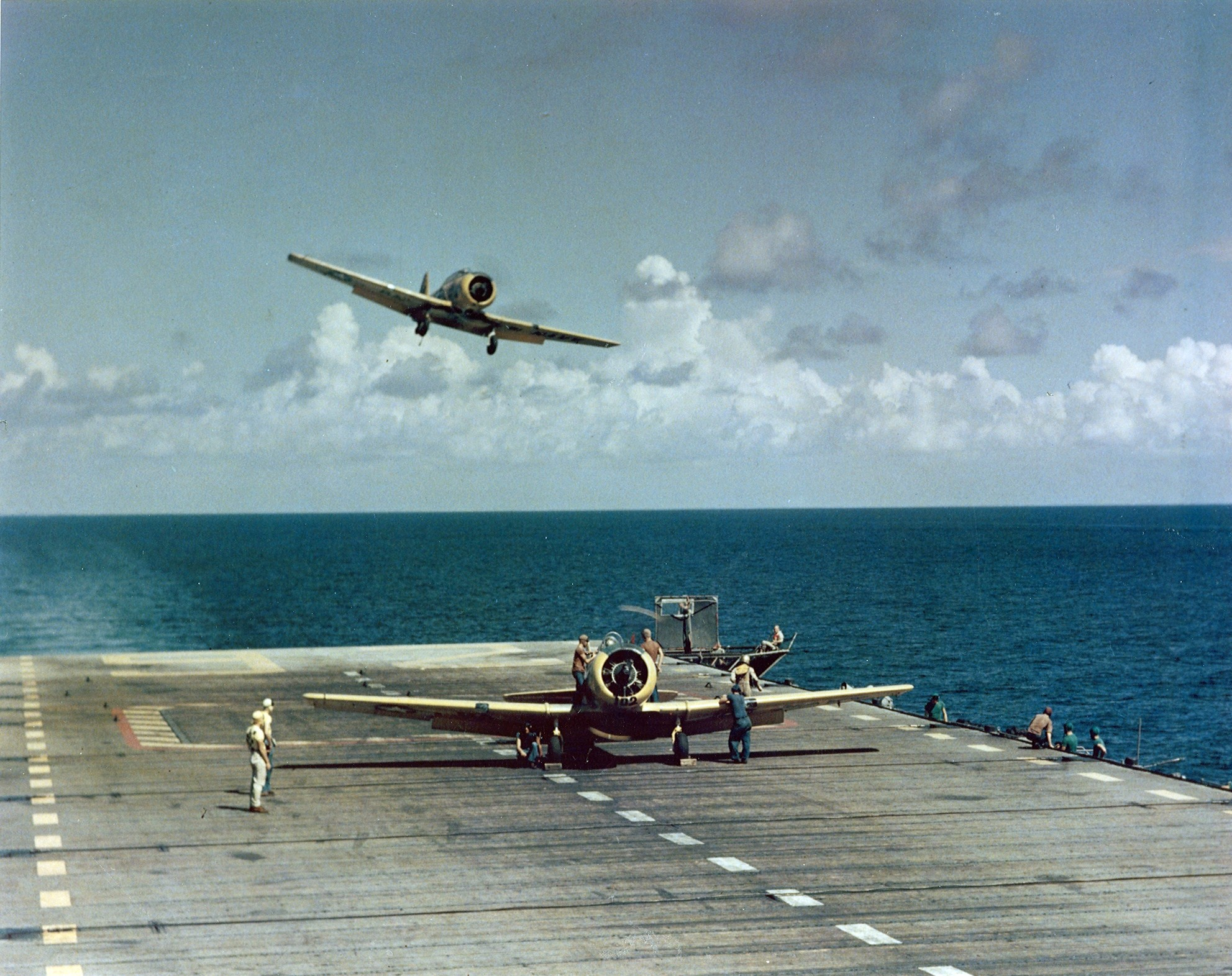 A U.S. Navy North American SNJ-5C Texan training aircraft, with tailhook down, readies for a landing aboard the light aircraft carrier USS Monterey (CVL-26) in 1953.